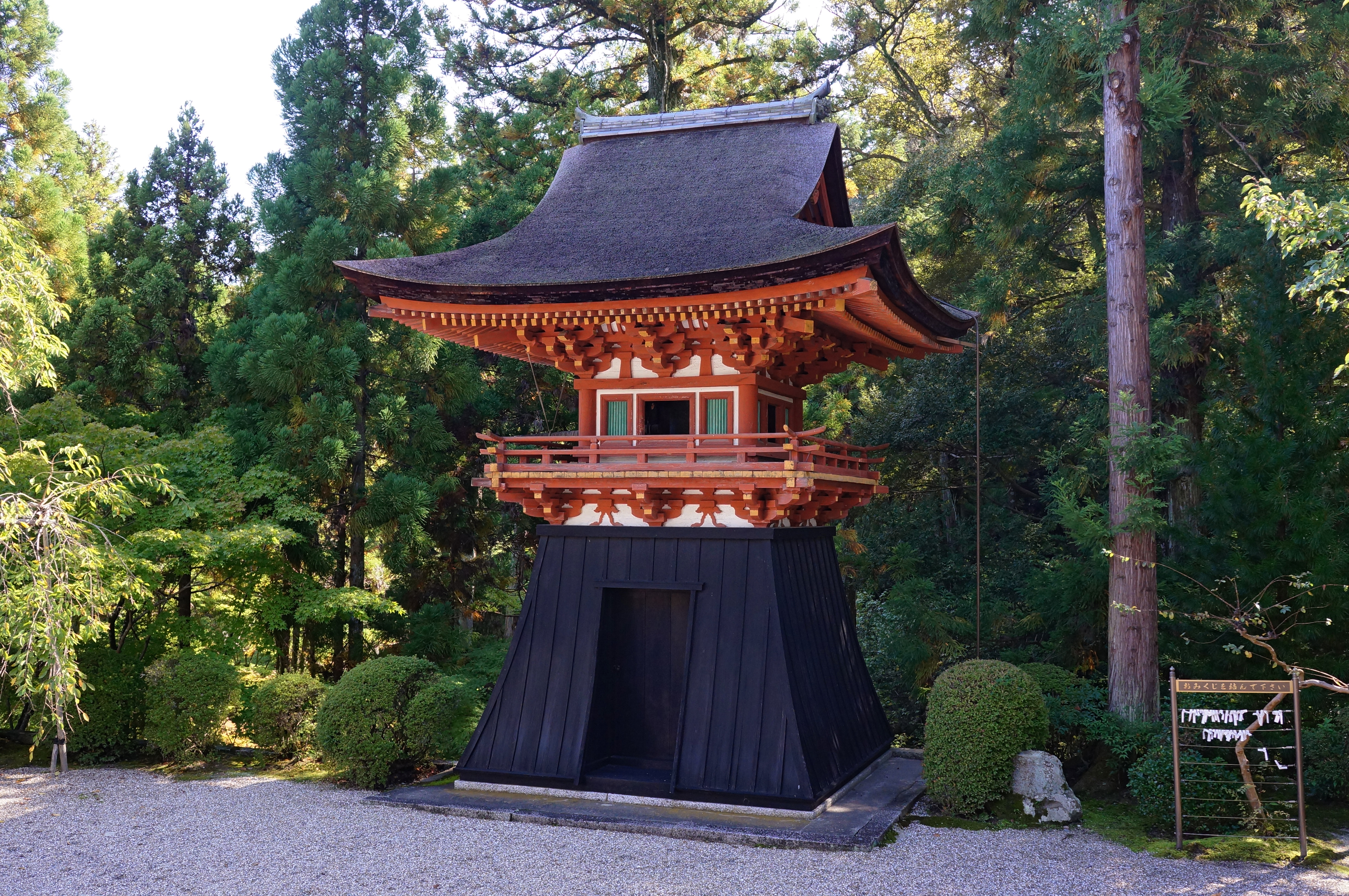 Ryōsen-ji in Nara, Nara prefecture, Japan.